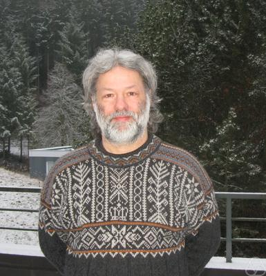 Moritz Epple, Historian for mathematics and science at the "Mini-Workshop: History of Mathematics in Germany, 1920 - 1960" in Oberwolfach, 2010.